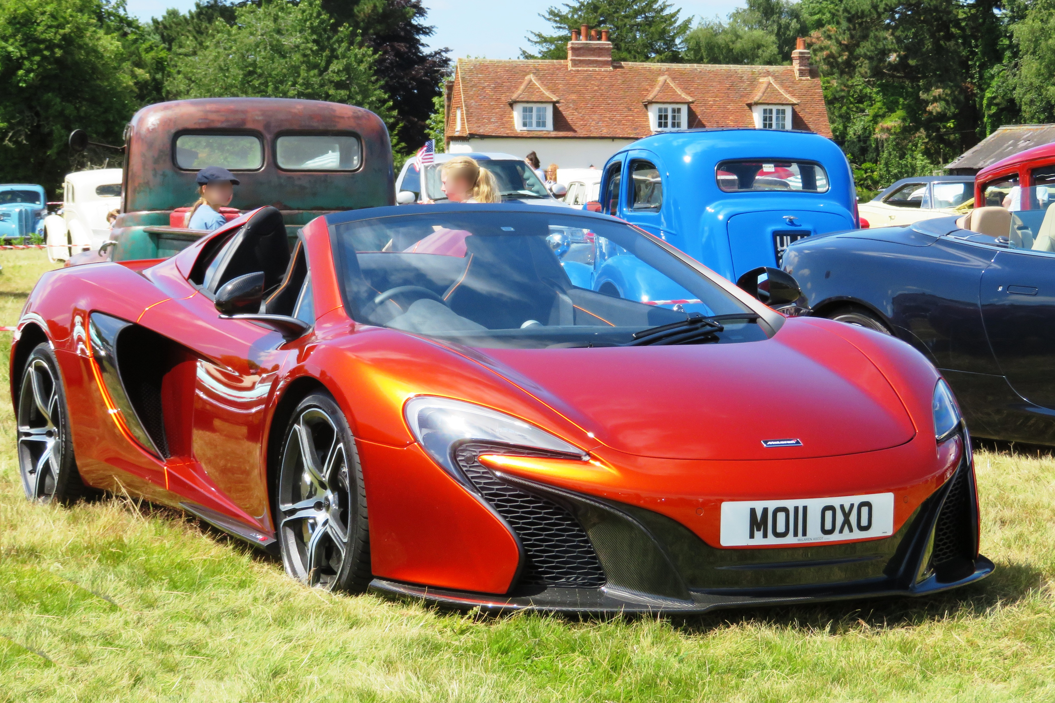 McLaren 570S Spider (2016)